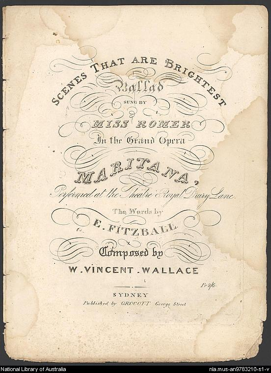 Sheet music from Maritana